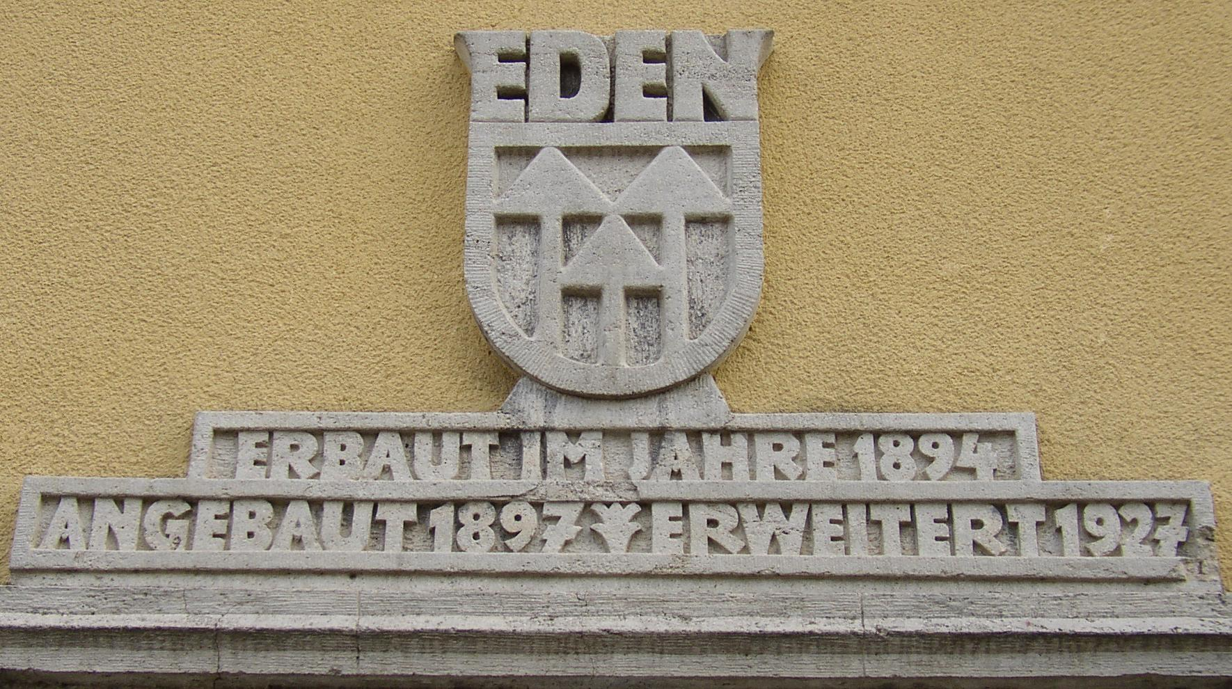 Inscription in Oranienburg-Eden in Brandenburg, Germany